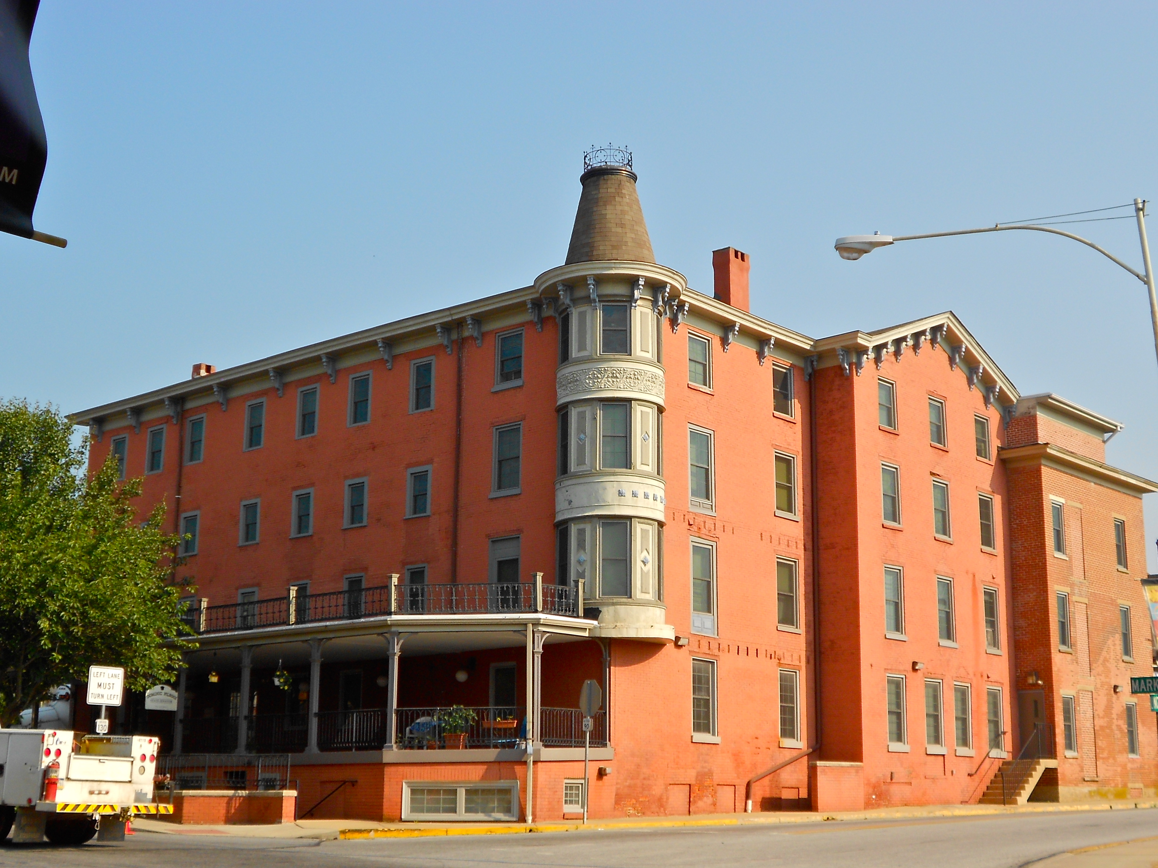 Building in the Oxford Historic District on the National Register of Historic Places since February 1, 2007. the district is roughly bounded by Church Road (N), Chase Street (E), and Hodgson Street (S).